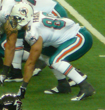 If used somewhere other than Wikipedia, Nelson, by name.